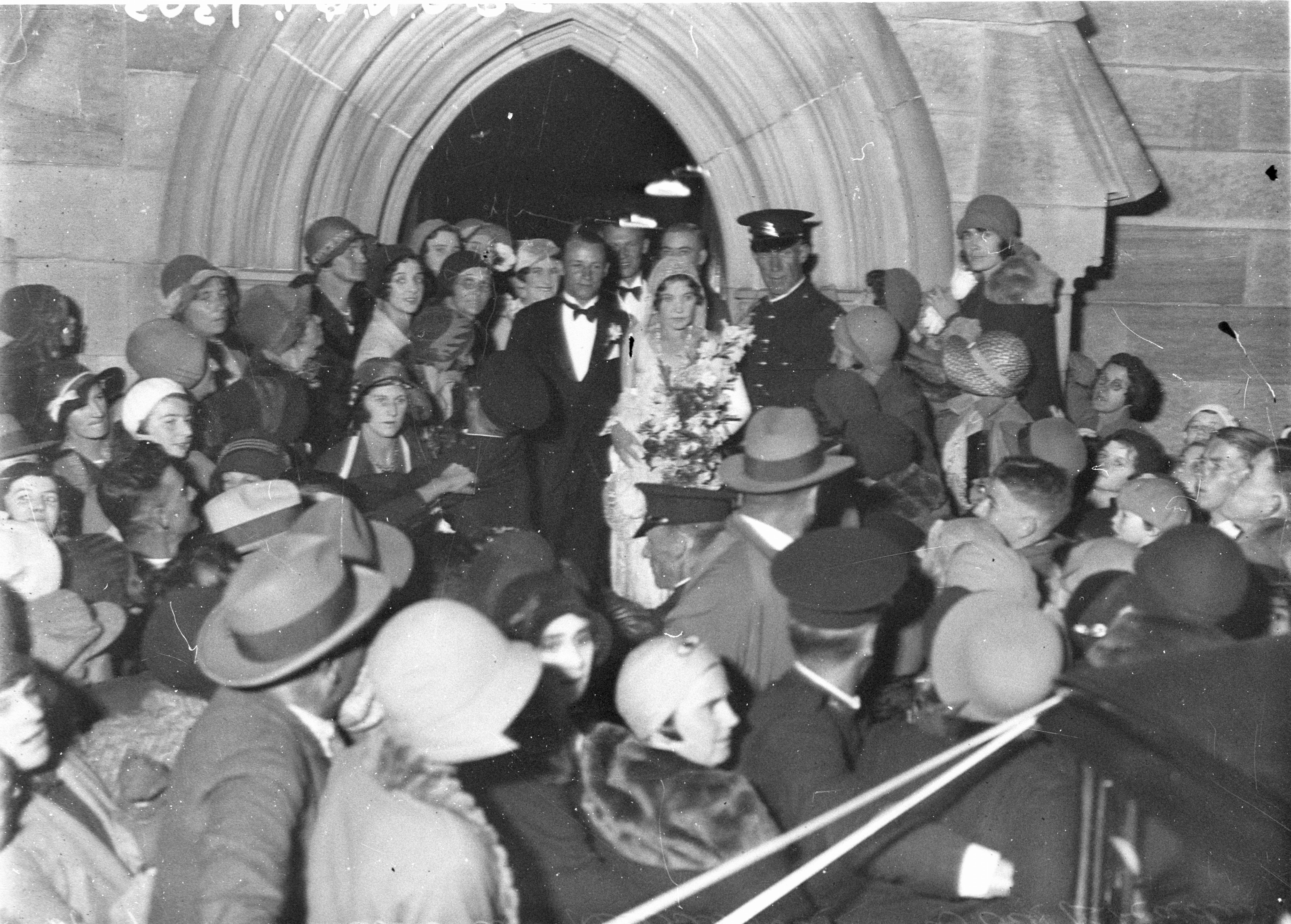 Wedding of Don Bradman, St. Pauls Church, Burwood, 30 April 1932, Sam Hood, glass negative, State Library of New South Wales ON4/7305